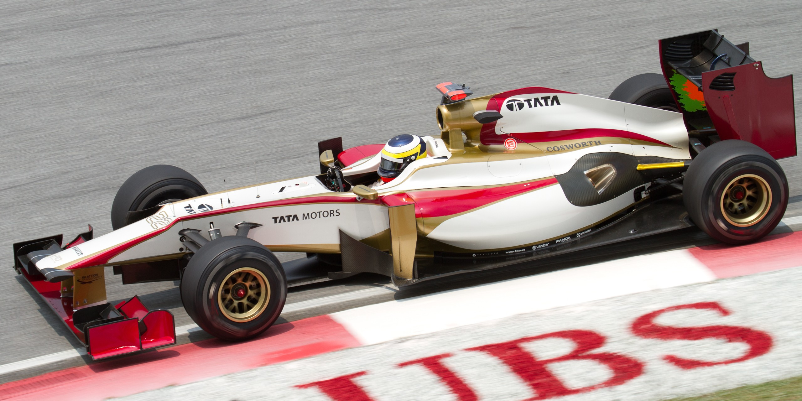 Formula One 2012 Rd.2 Malaysian GP: Pedro de la Rosa (HRT F112) during the second practice session on Friday.